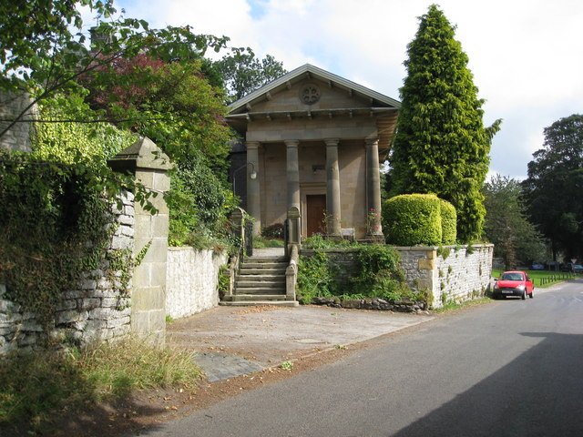 Roman Catholic church of All Saints, Hassop, Derbyshire, seen from the west